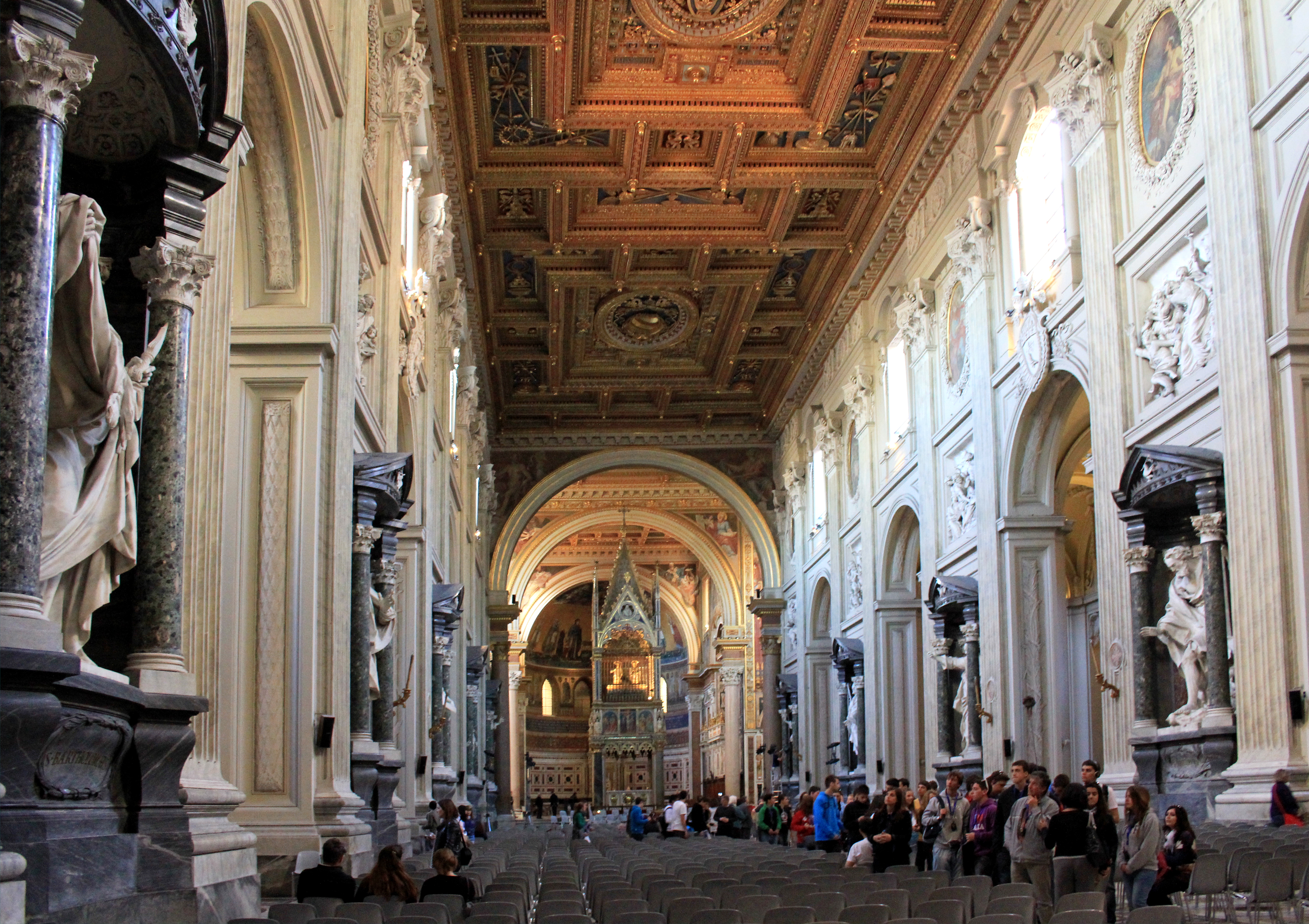 Interior and Ciborium of Basilica of St. John Lateran, Rome, Italy